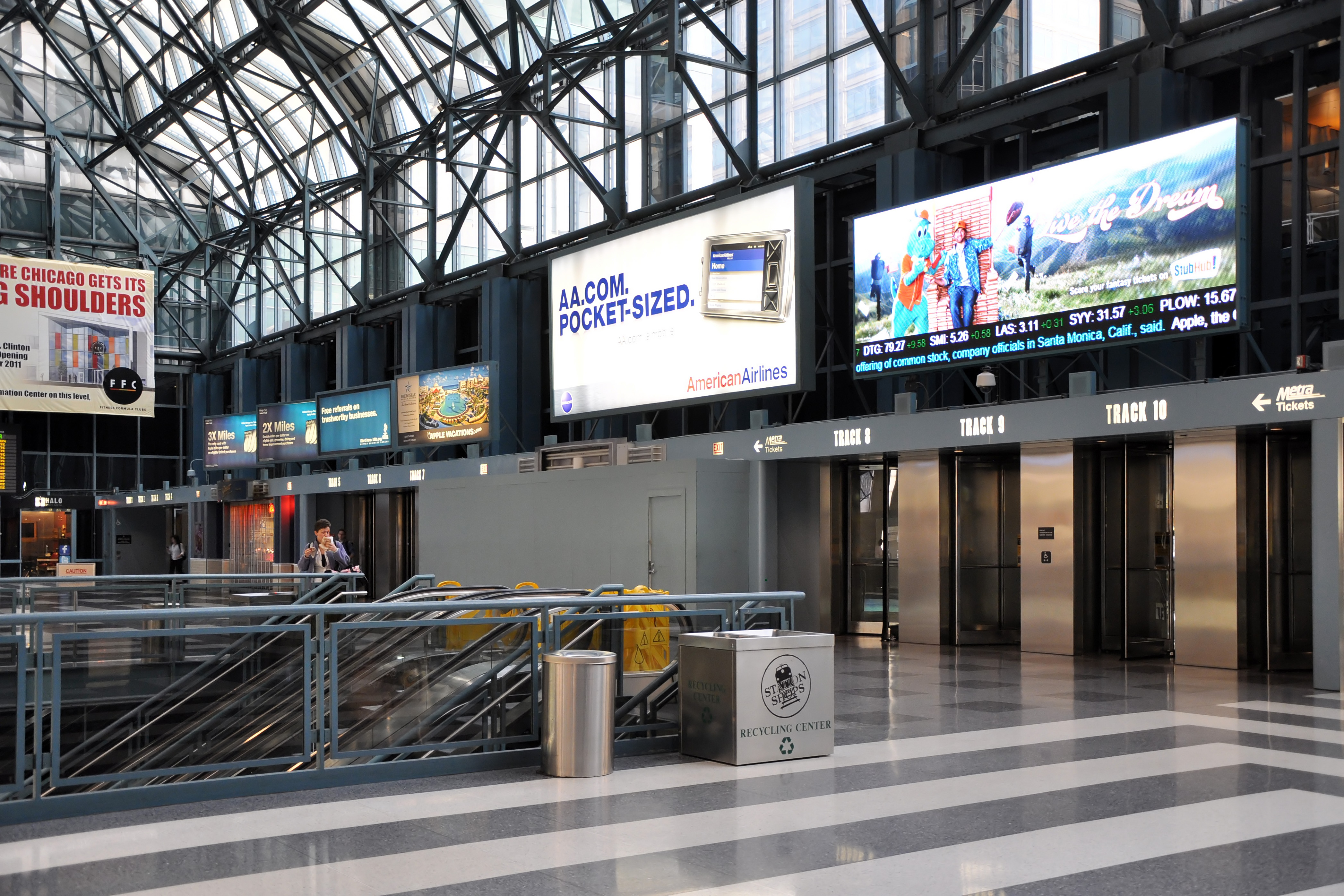 Ogilvie Transportation Center in Chicago, Illinois, USA.